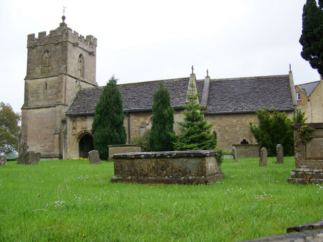 St Mary's Church, Broughton Gifford Anglican parish church with building from the 13th to 15th centuries and restored 1878 by G.G. Scott.